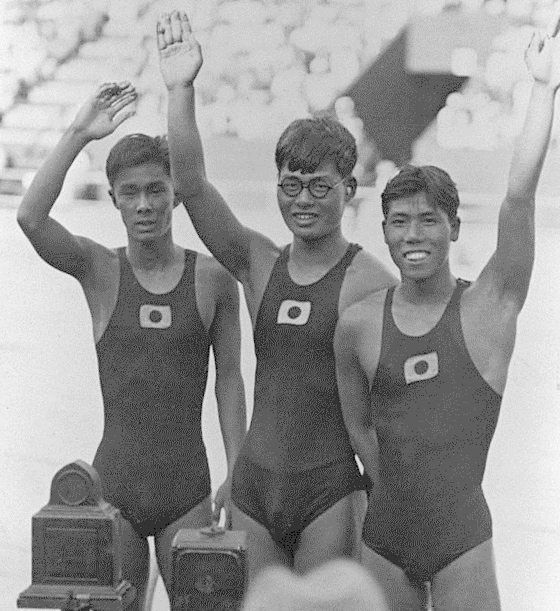 Masaji Kiyokawa, Toshio Irie and Kentaro Kawatsu all of Japan smile for the cameras after the 100 metres Backstroke event at the 1932 Olympic Games in Los Angeles, USA. Kiyokawa won the gold medal, Irie the silver and Kawatsu the bronze.